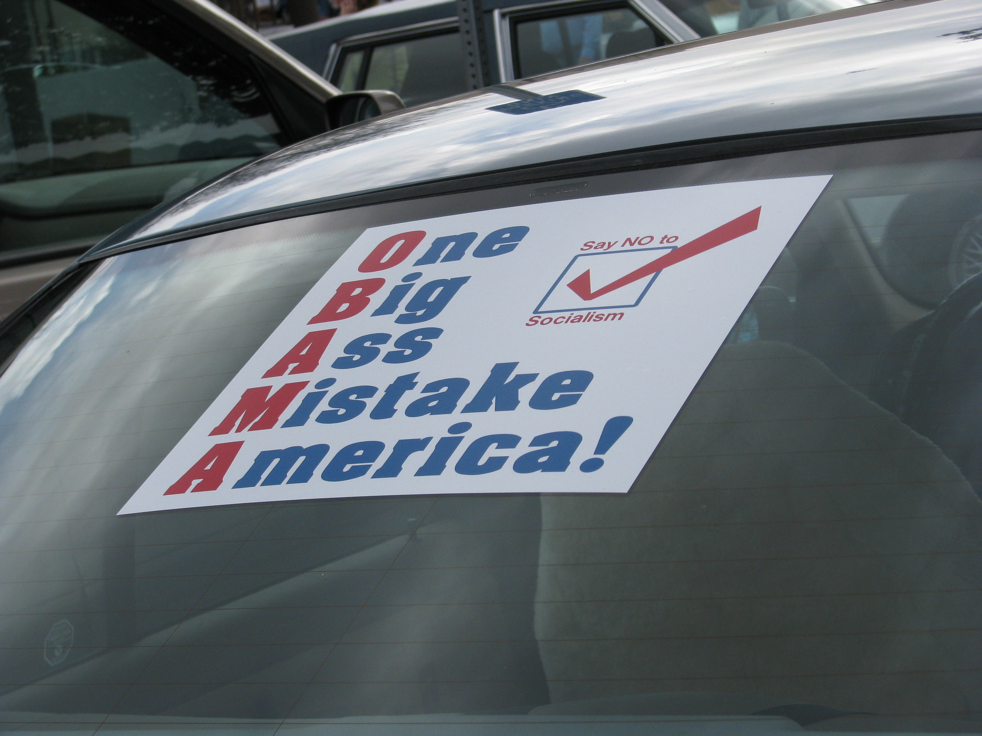 From the Albuquerque Tea Party on Tax Day